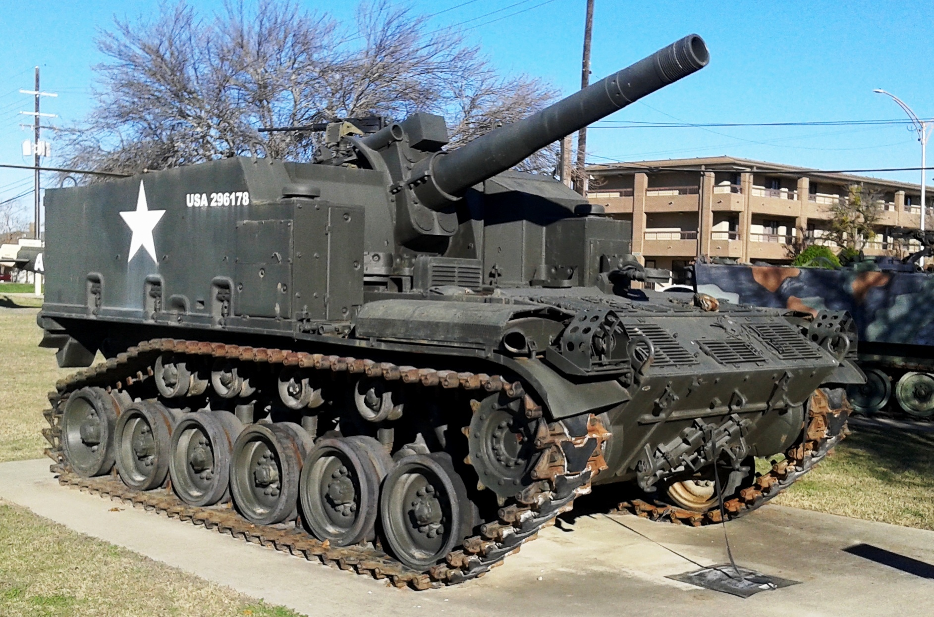 M44 155-mm SP Howitzer